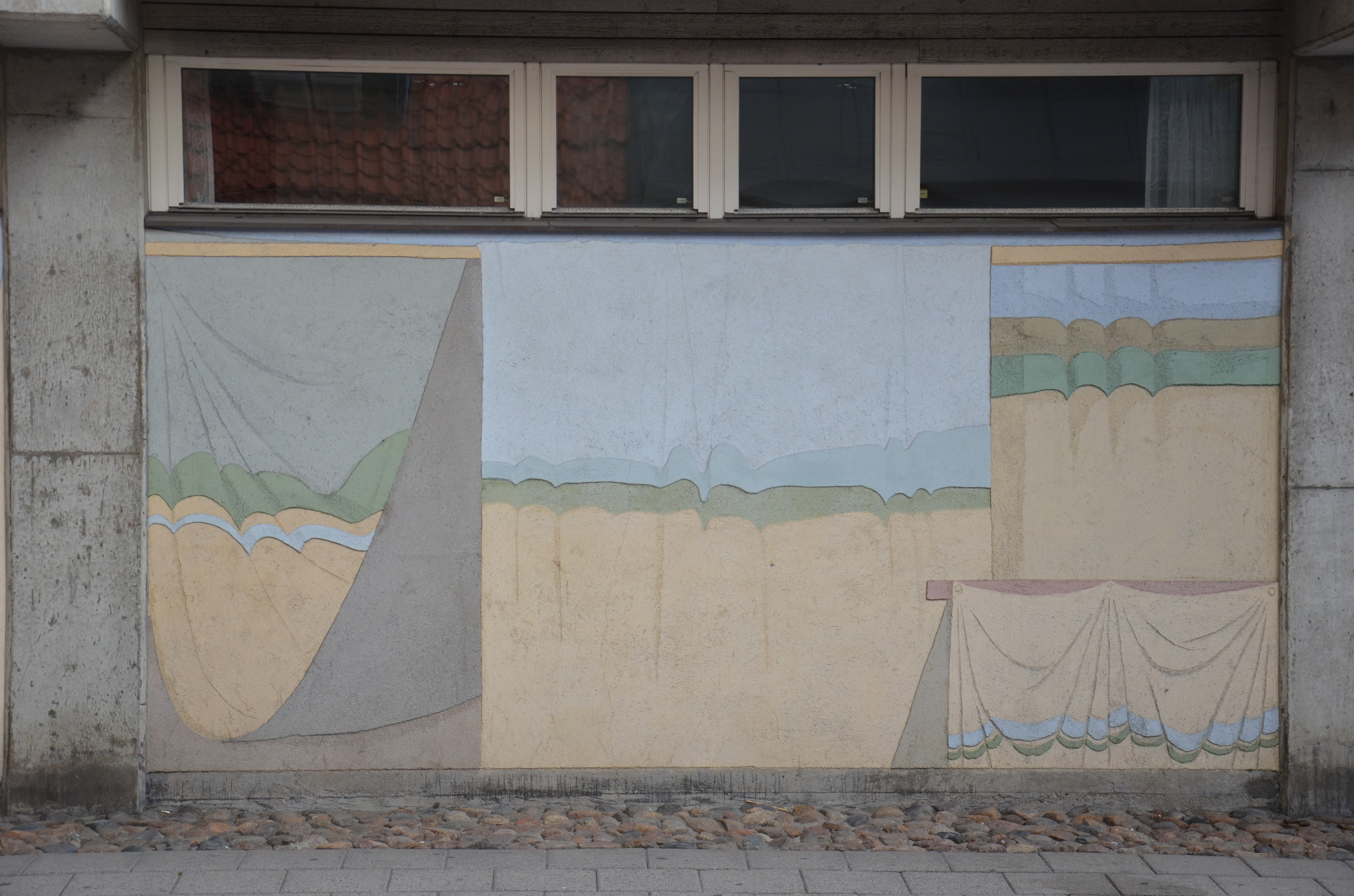 Detalj av John Wipps Draperilandskap, Fötrsäkringskassan, Stora Södergatan i Lund